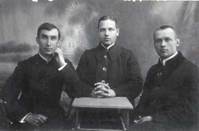 Photo of Belarusian Roman Catholic priest writers (from left to right) Janka Bylina (1883—1956); Adam Stankievič (1892—1949); Kazimier Svajak (1890—1926) Беларуская (тарашкевіца): Ксяндзы-літаратары (зьлева направа) Янка Быліна (Янка Семашкевіч, 1883—1956 гг.); Адам Станкевіч (1892—1949 гг.); Казімер Сваяк (Канстанцін Стаповіч, 1890—1926 гг.). 1916 г.